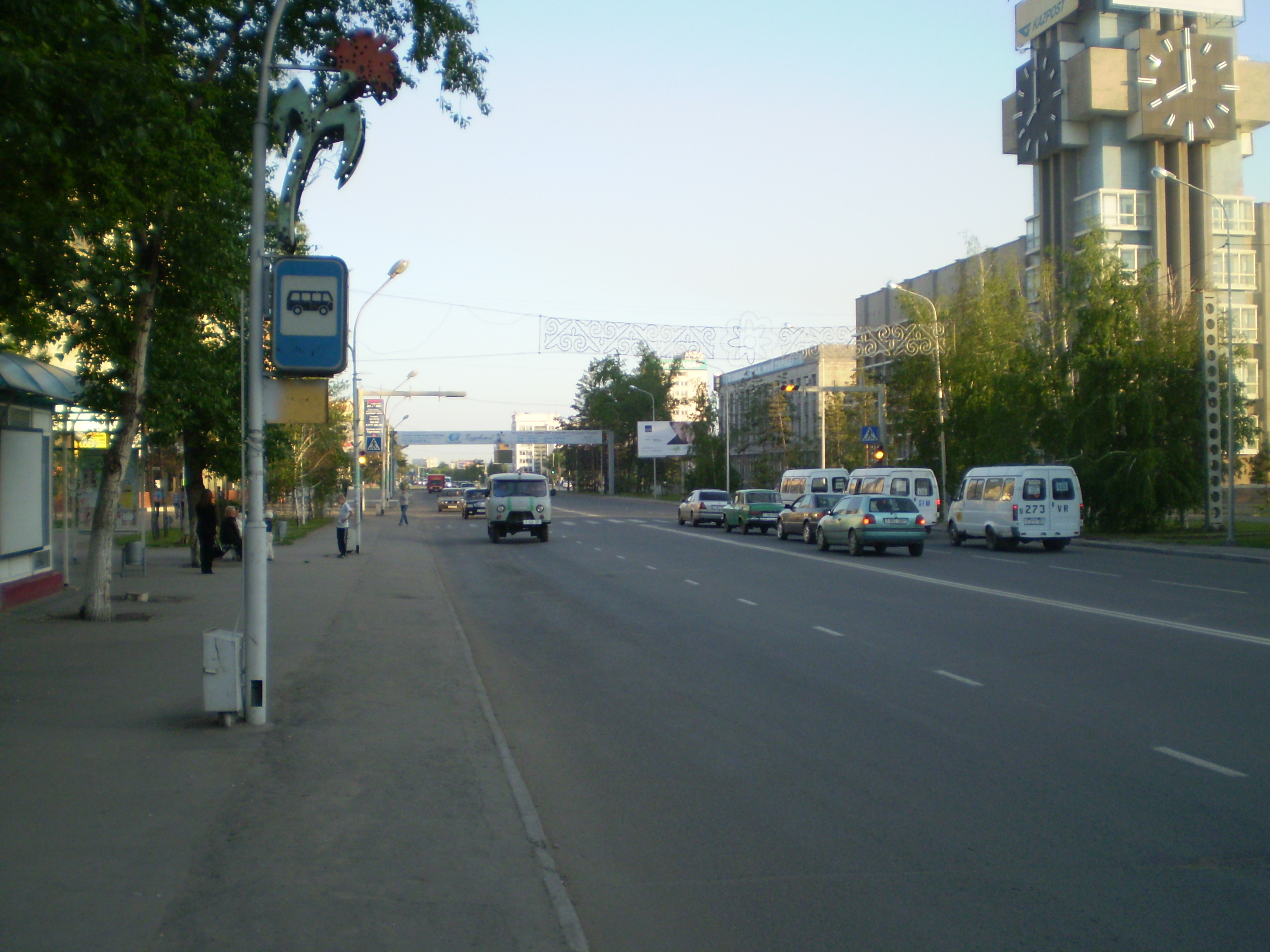 Satpaeva street, Pavlodar.